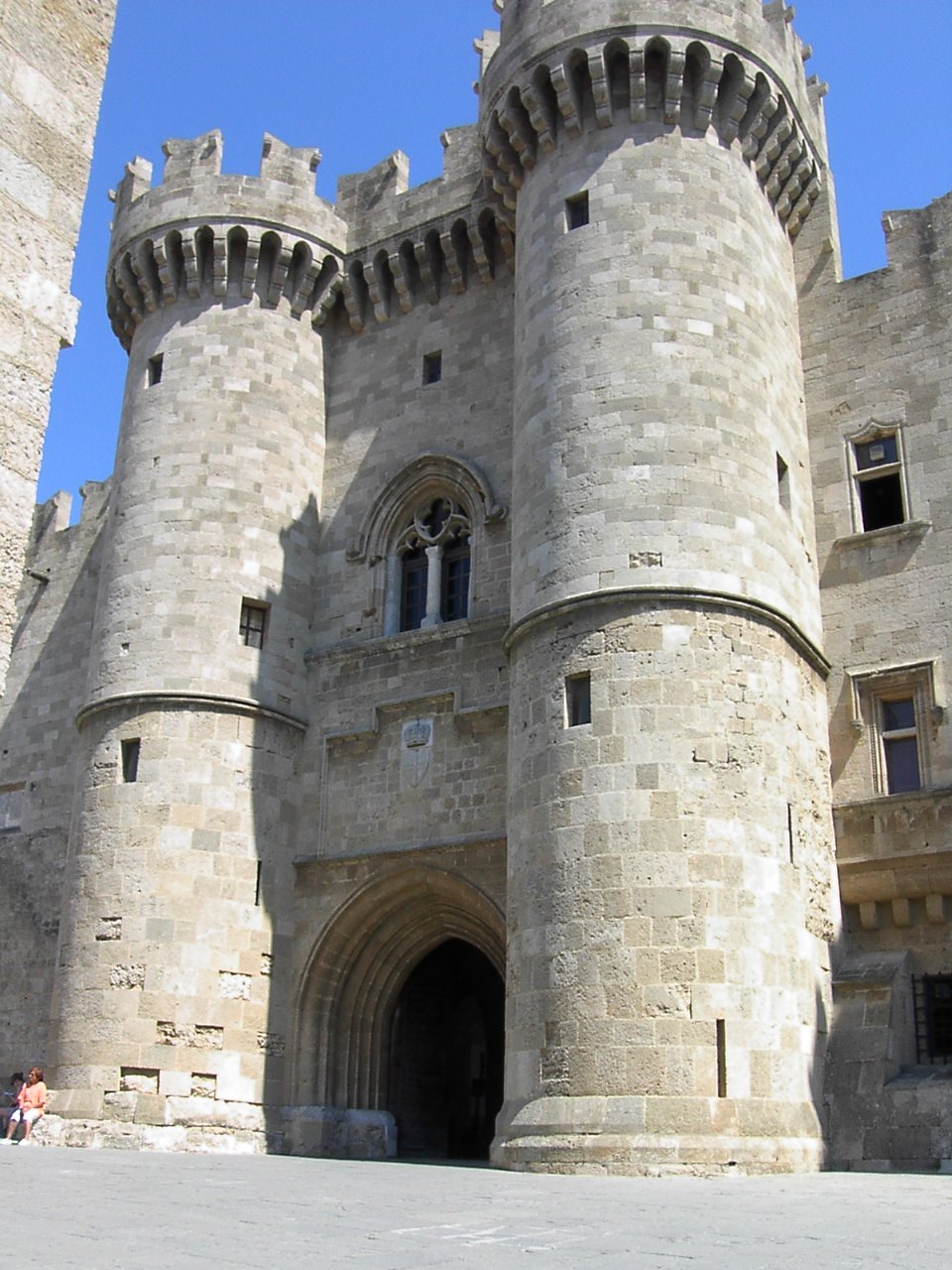 Palace of the Grand Master of the Knights of Rhodes